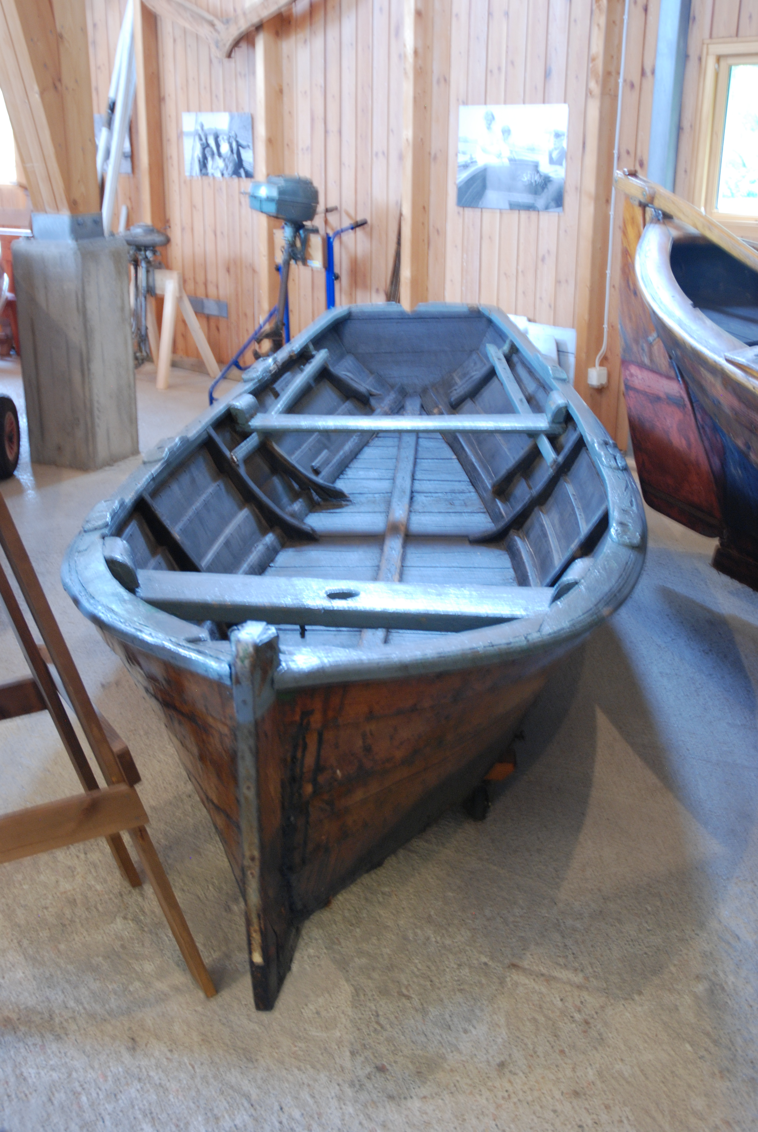 Dory at Bohusläns museum, Uddevalla